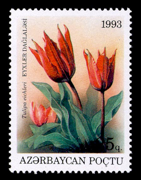 Stamp of Azerbaijan